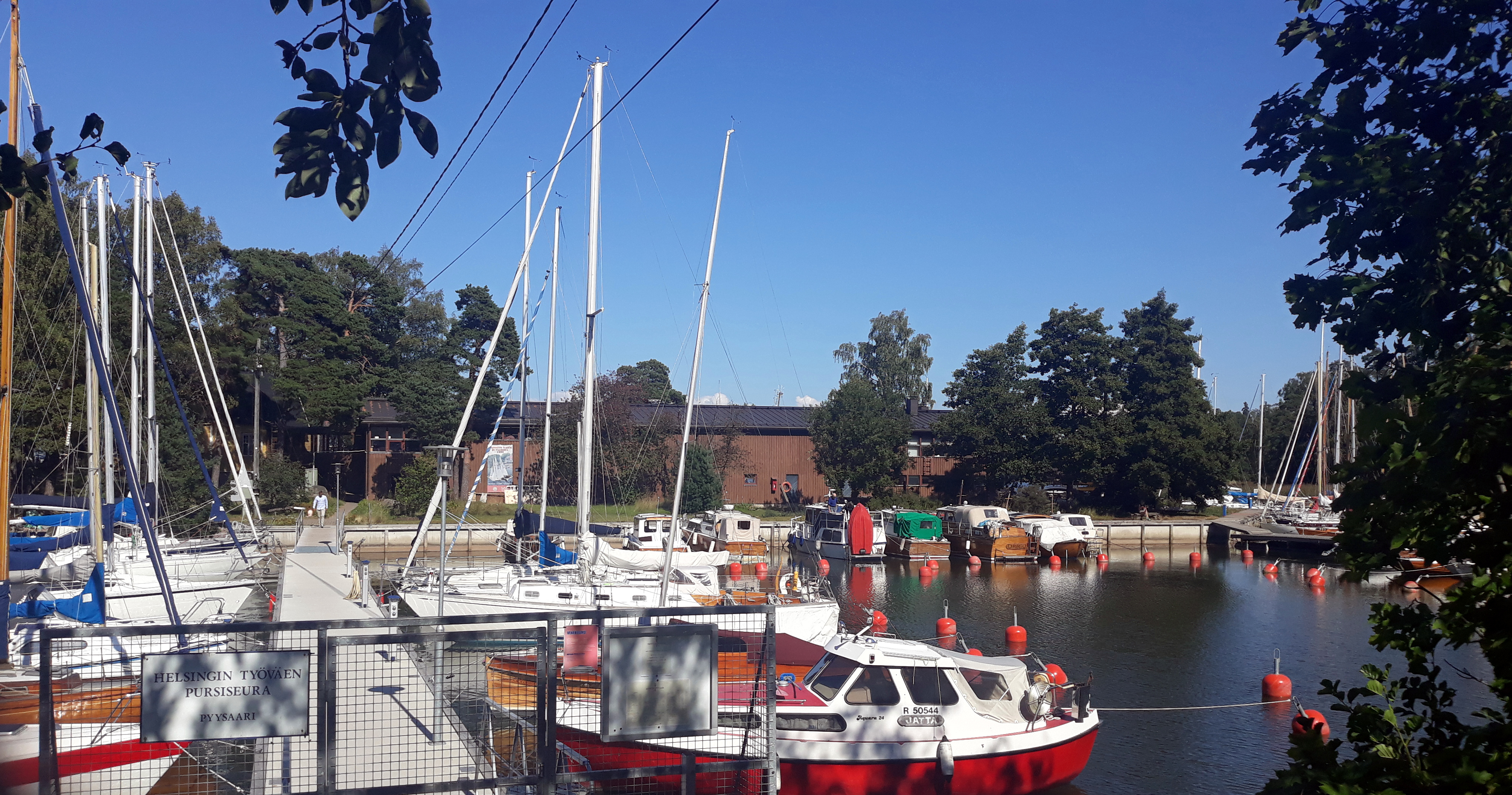 The island of Pyysaari in Helsinki.